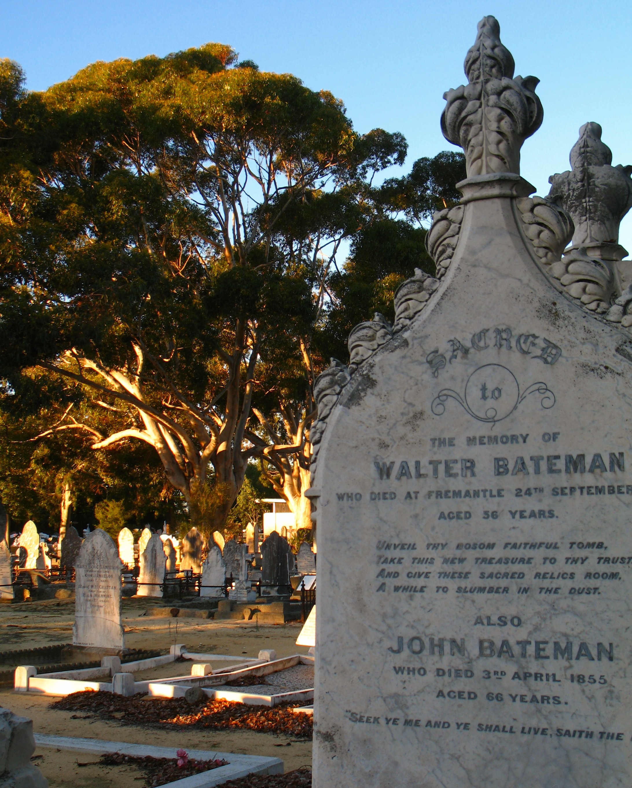 Fremantle Cemetery, Palmyra, Western Australia. - Walter Bateman (22 June 1826 – 24 September 1882) was a Fremantle merchant who was a member of the Western Australian Legislative Council from 1867 to 1870.